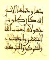 Spain or northwest Africa. 13th century: One of the first Quranic manuscripts to enter the Vatican Library, this codex comes from a "madrasa" or mosque school in Tunis and was probably taken when the troops of Charles V captured the city in July 1535. A fine example of the maghribi script typical of northwest Africa and Muslim Spain, the manuscript also contains good illuminations. It is only a fragment of the Auran, from sura 33:31 to sura 35:45 (part 22). The page shown here shows the beginning of sura 33 ayah 73. See Image:Sura 33.jpg for the adjacent page